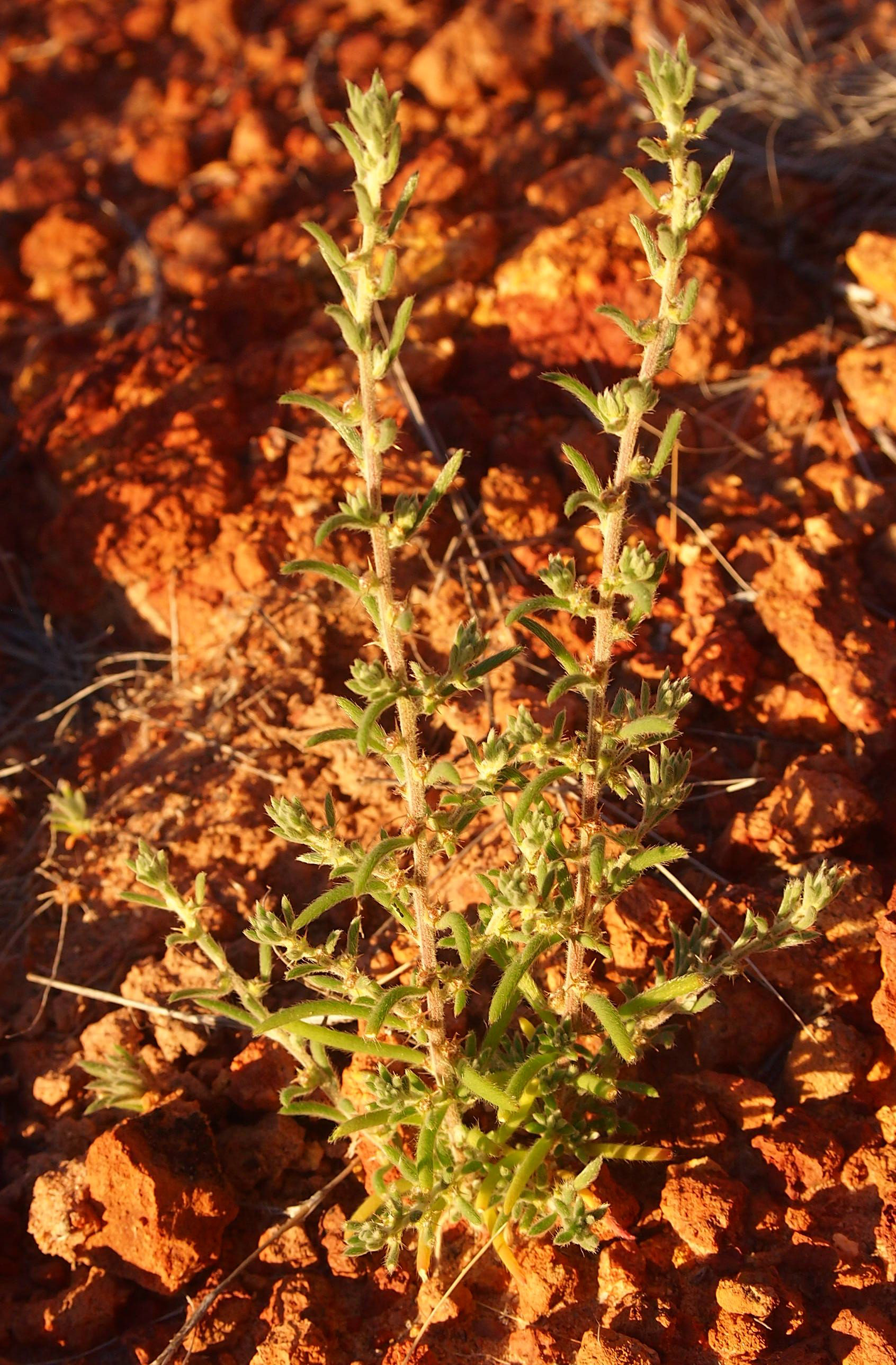 Sclerolaena convexula habit